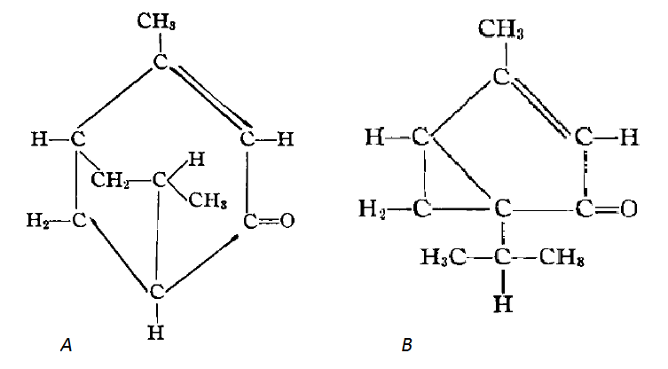 Structuur formules